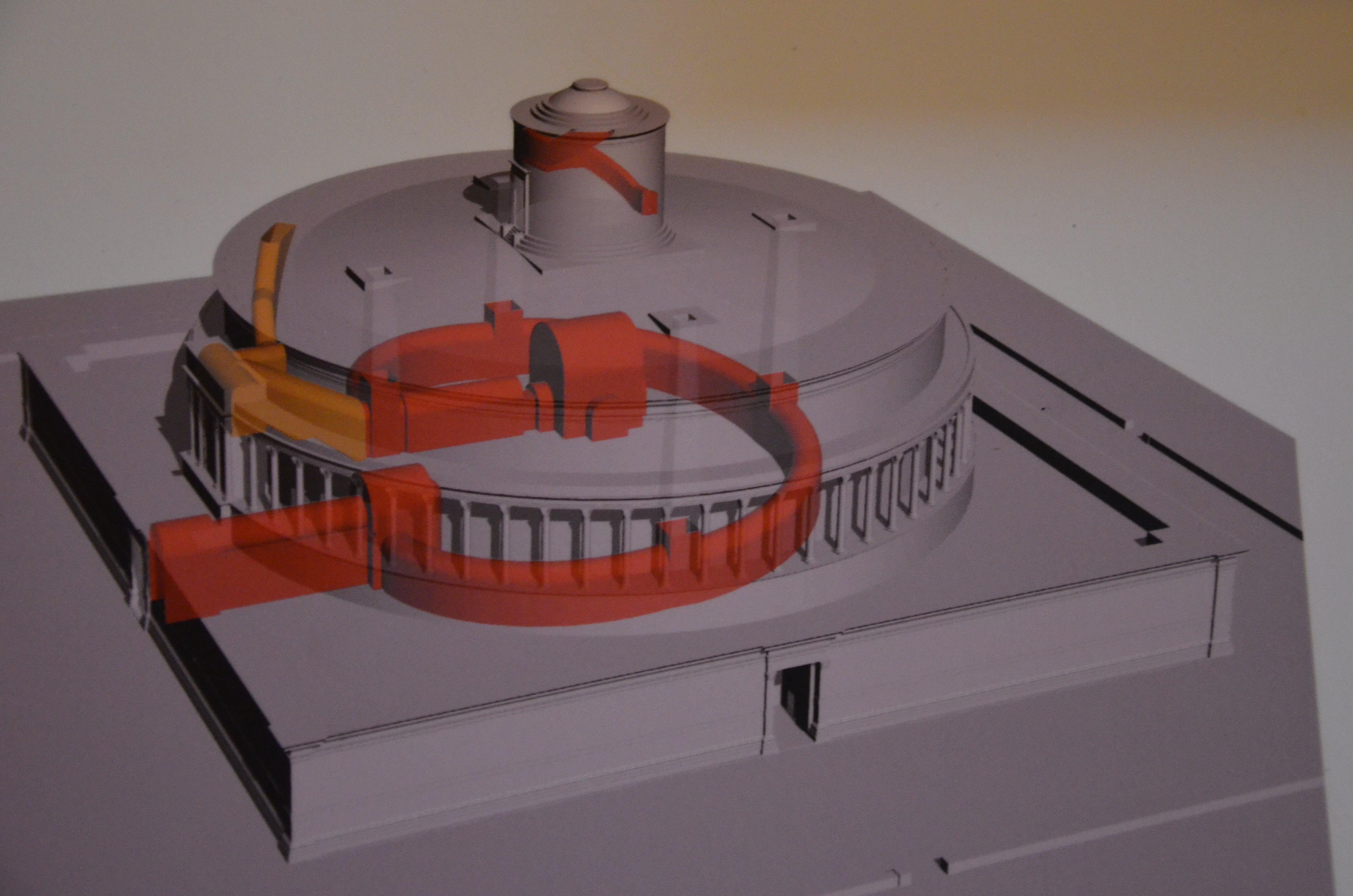 Mausoleum of Hadrian, Rome